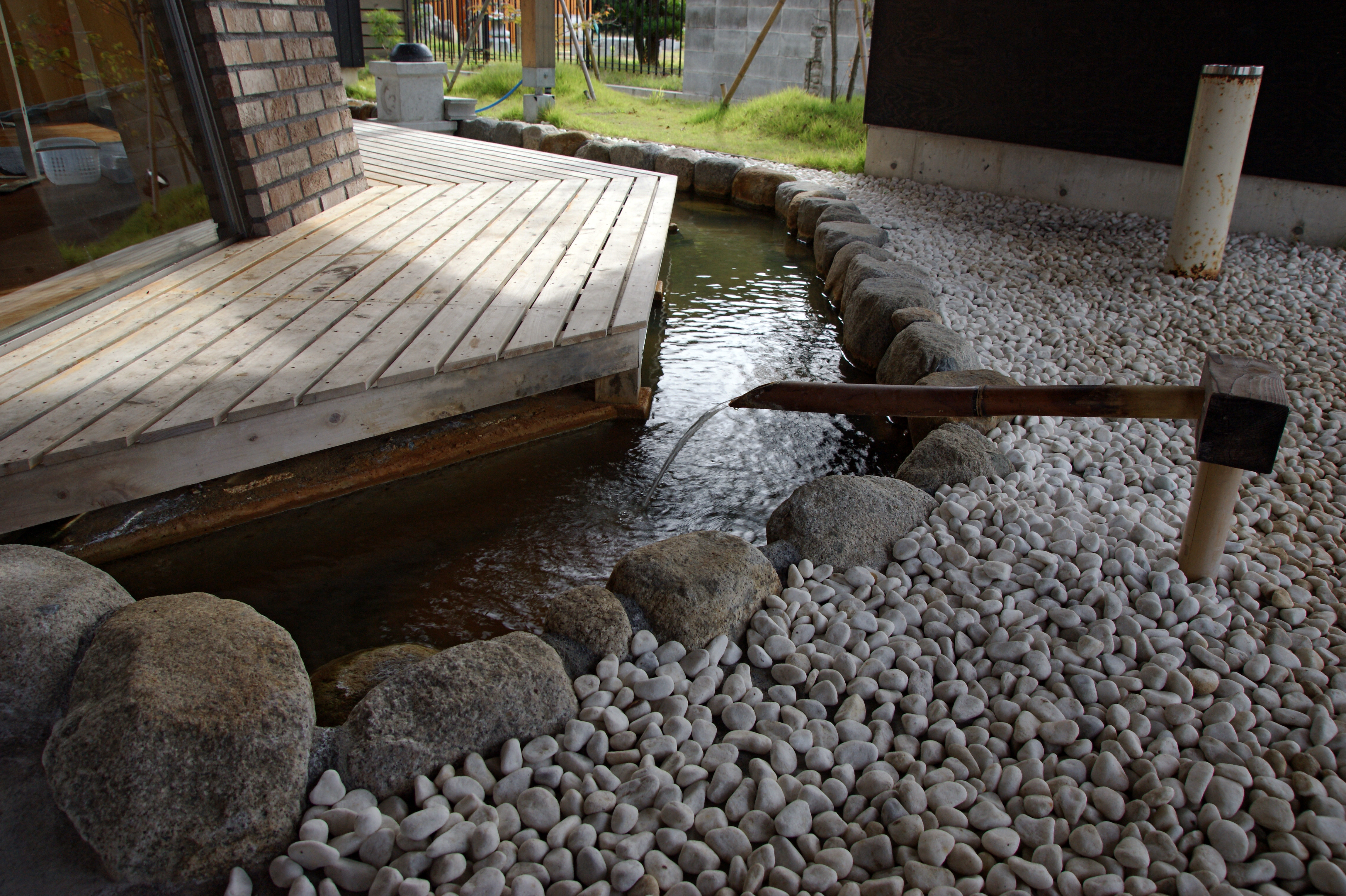 Shichikama Onsen of Hamasaka Onsenkyo in Shinonsen, Hyogo prefecture, Japan